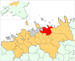 Location map of Jõelähtme Commune, Estonia. This image was created by Senzeichi.